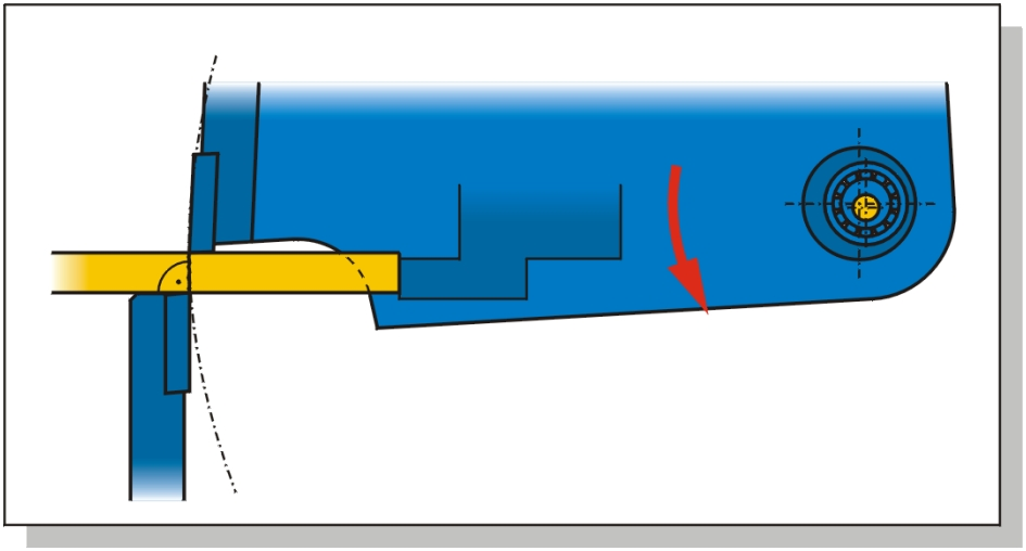 The upper blade contacts the plate almost right above the lower blade.